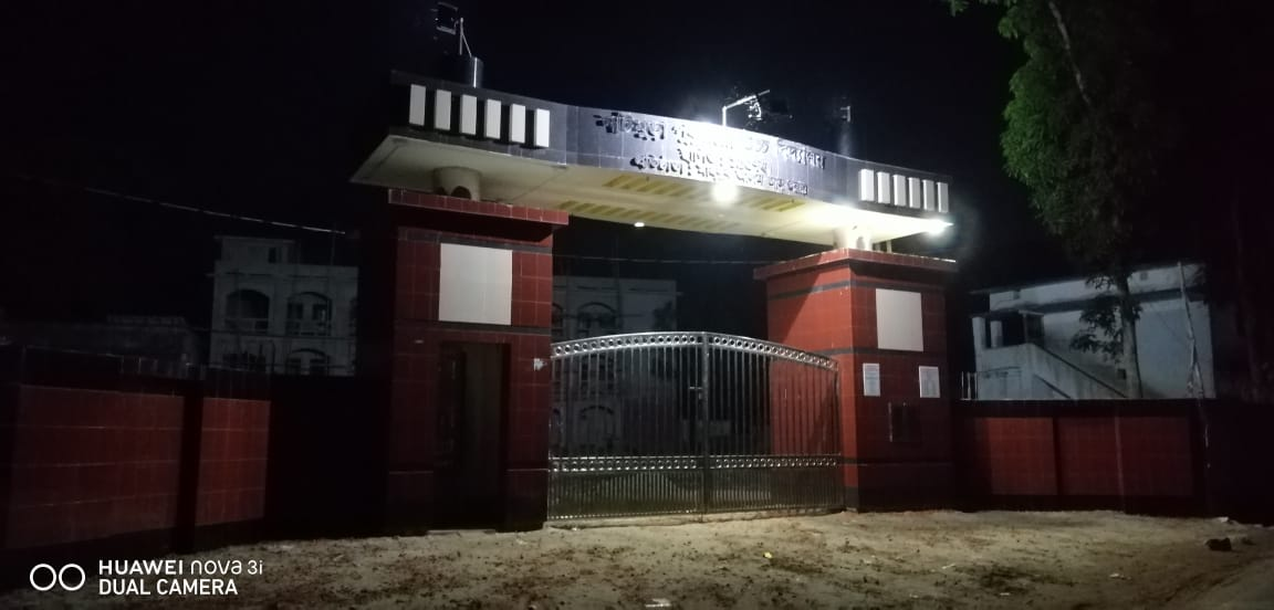 The Structural design of the gate is based on a model of a US school. The illuminated gate is in sync with the Motto of the School "Knowledge is Light" and solid structure represents confident students with strong learning